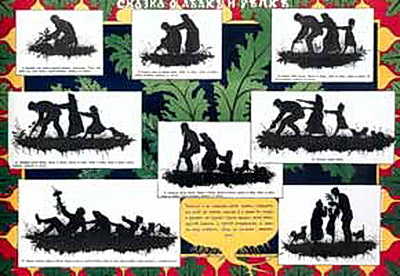 The Giant Turnip